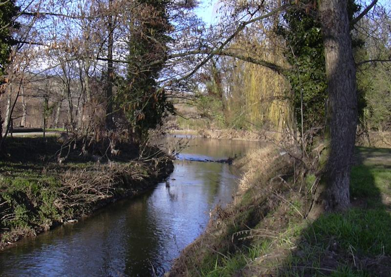 The small river Zaber flowing into the river Neckar at Lauffen, Germany